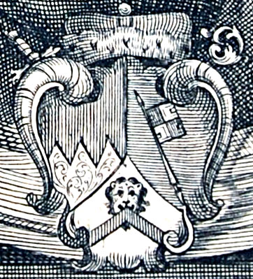 Heinrich I. († 14. November 1018 in Würzburg) 996 - 1018 Bishop of Würzburg.